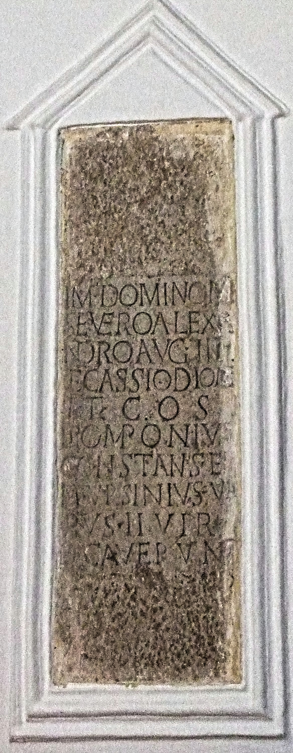 Roman votiv table, village Rabenden, municipal Altenmarkt, district Traunstein, Upper Bavaria, Germany. Walled in the Church St. Jacob the Elder. Dimension 96x37cm.